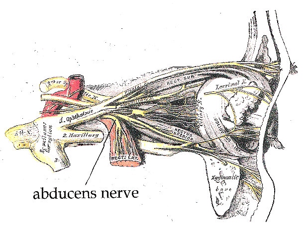 Modified from Wikipedia Image:Gray777 to highlight the abducens nerve.